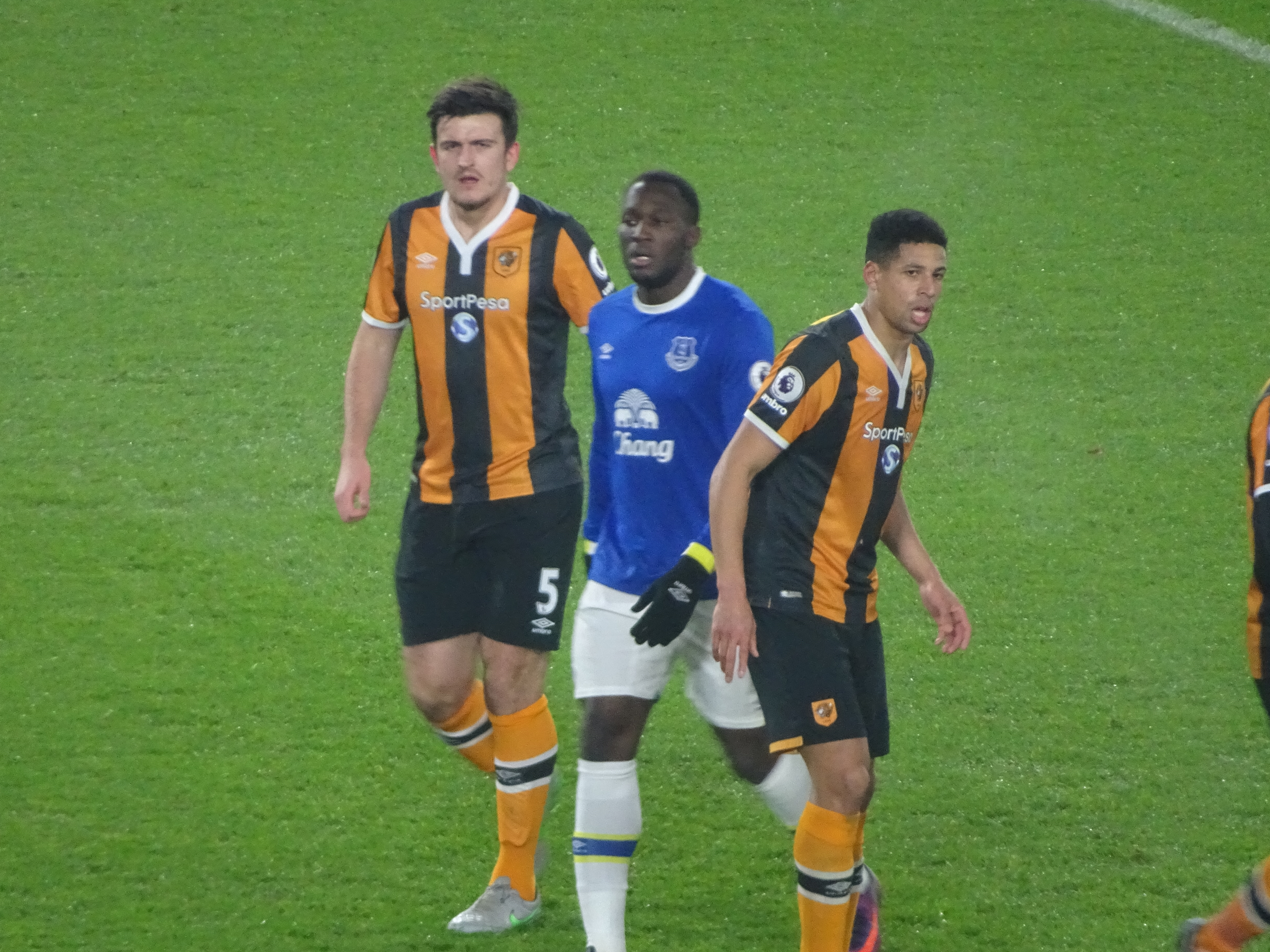 Davis and King Harry the bread